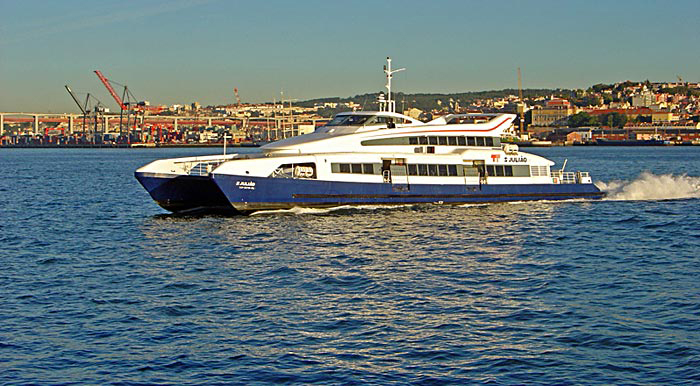 Catamaran "São Julião", TransTejo company, Lisbon, Portugal.